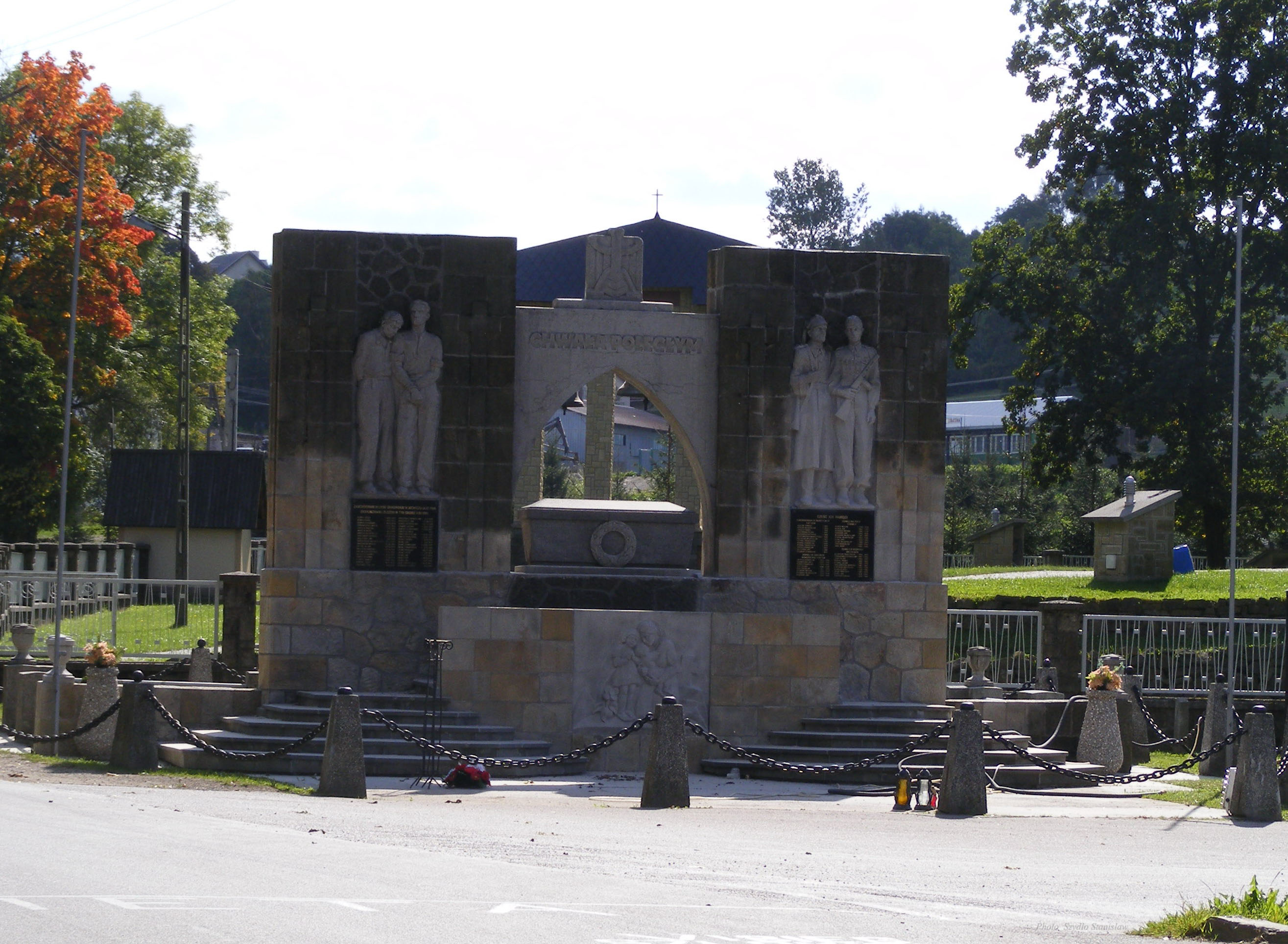 Monument in Lubatowa